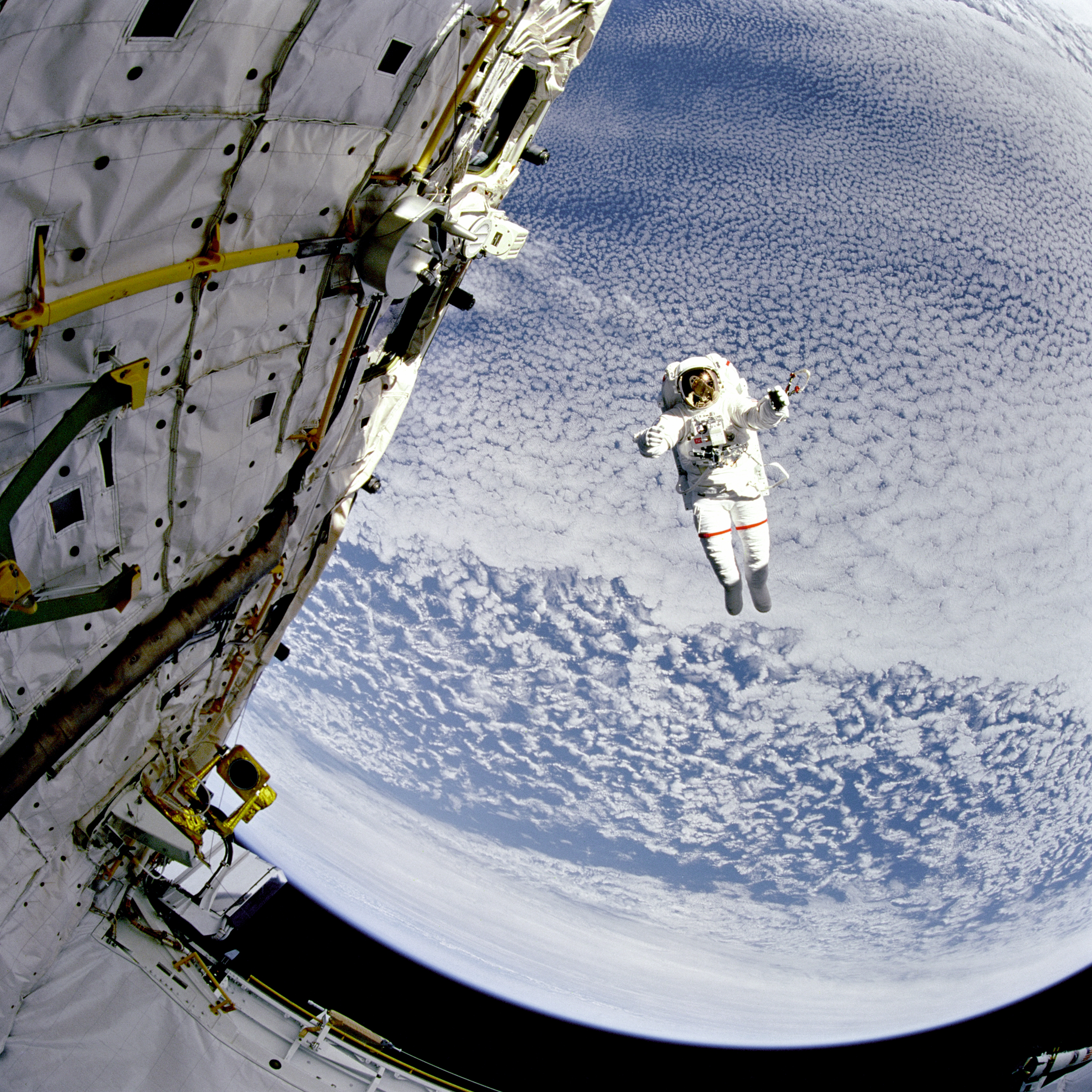 Backdropped against the blue and white Earth 130 nautical miles below, astronaut Mark C. Lee tests the new Simplified Aid for EVA Rescue (SAFER) system.